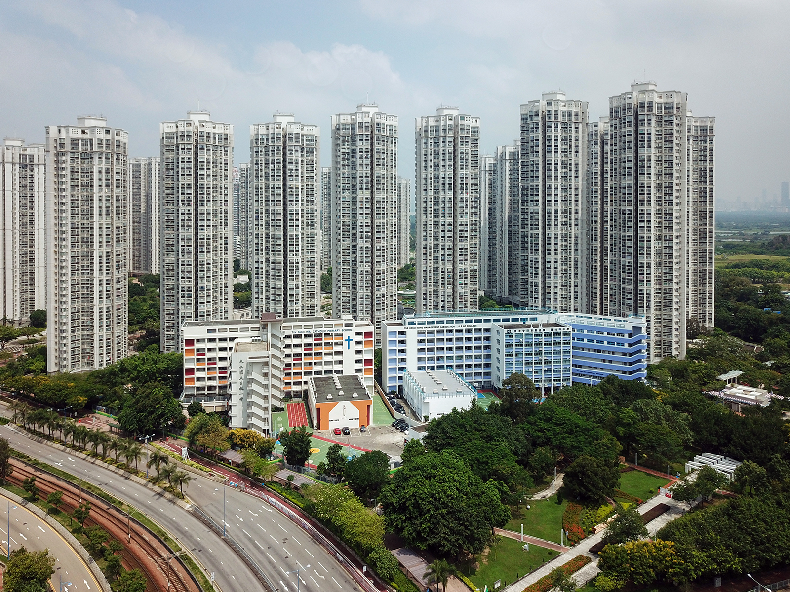 Tin Shui Wai Catholic Primary School